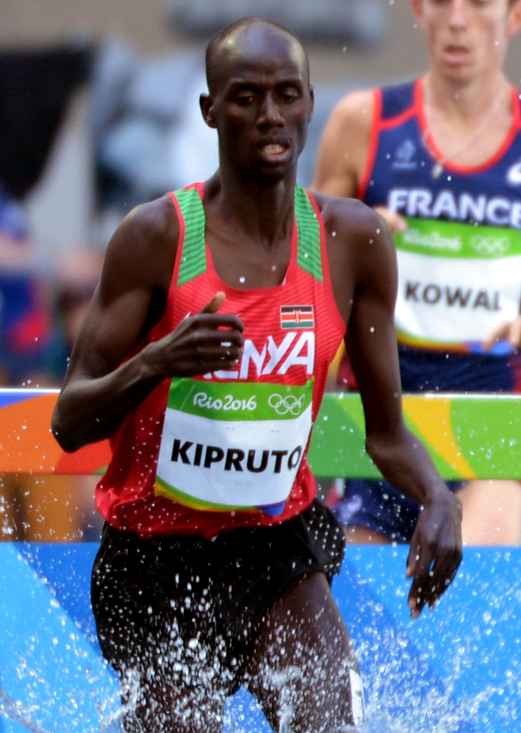 Brimin Kipruto, in in the men's 3,000-meter steeplechase, Rio 2016